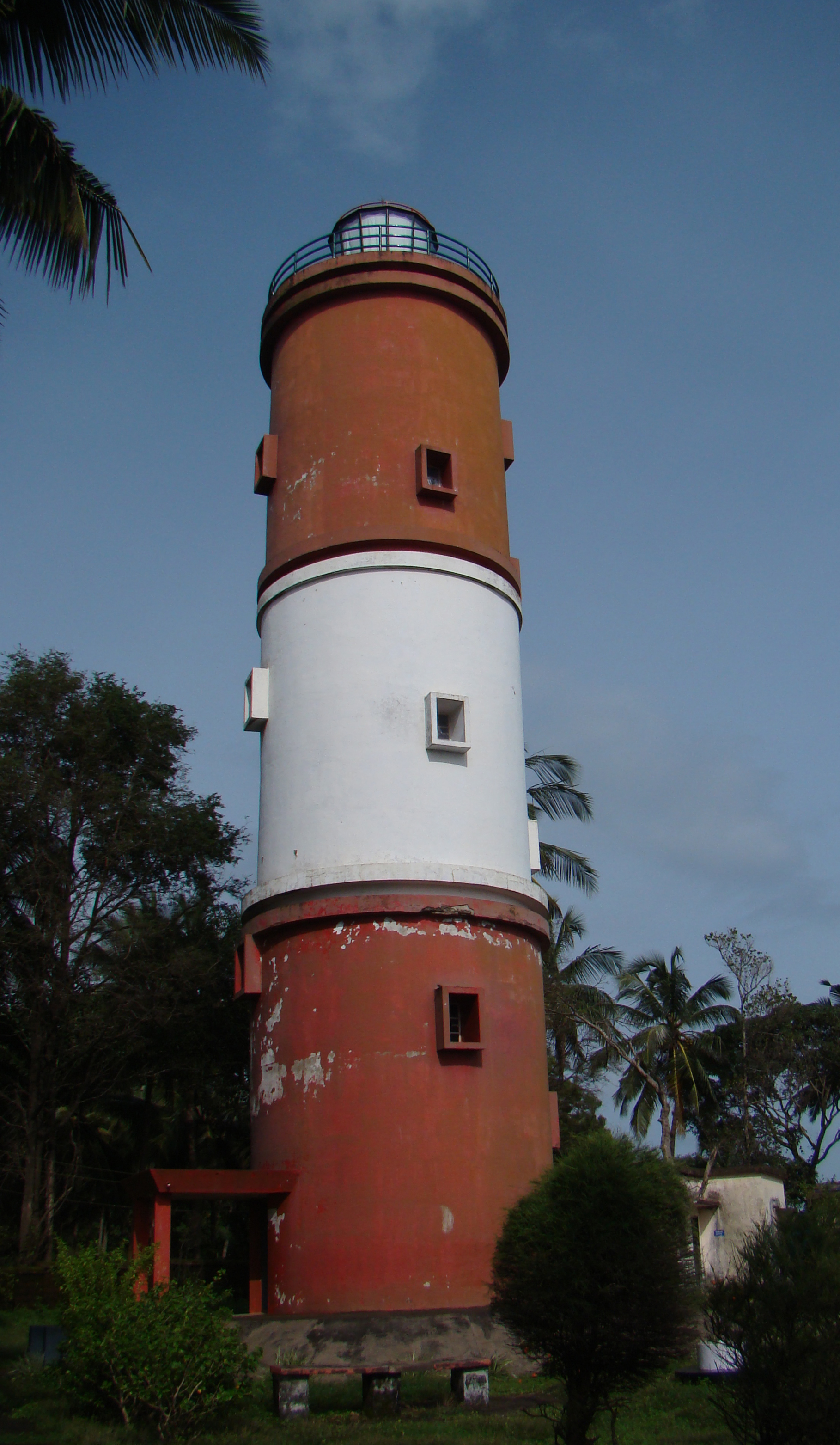 New Lighthouse commissioned into service on 25 July 1976.